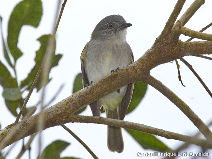 Myiopagis caniceps at Fazenda Angelim (Ubatuba, São Paulo, Brazil)